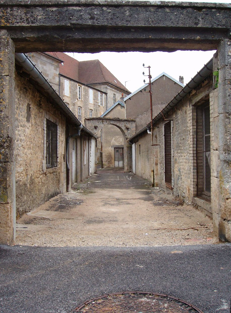 Langres, northern city wall